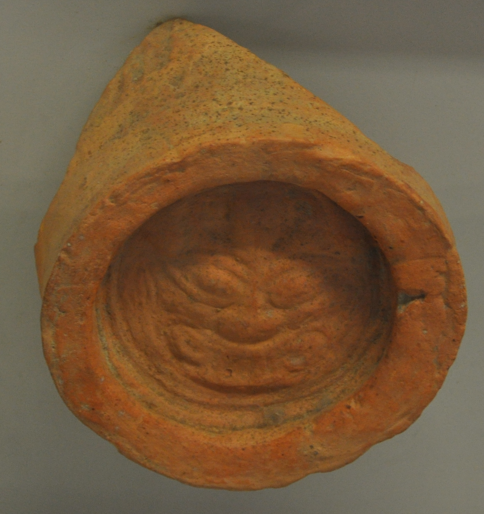 11-13c. Terra Cotta in room 6 “Champa Culture (2-17c)” in the Museum of Vietnamese History, Mỹ Sơn, Quảng Nam